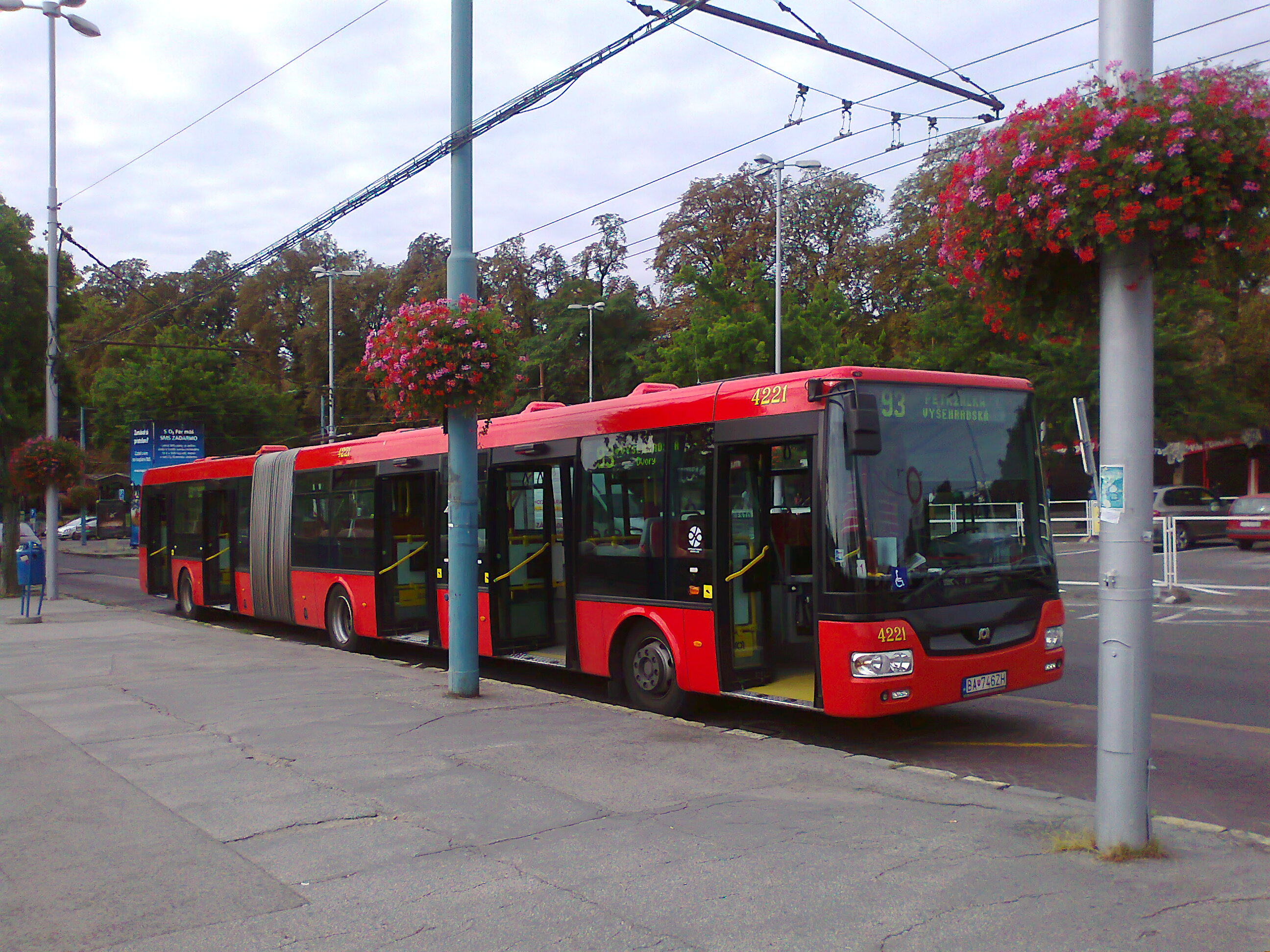 A SOR Bus in Bratislava on Predstaničné námestie